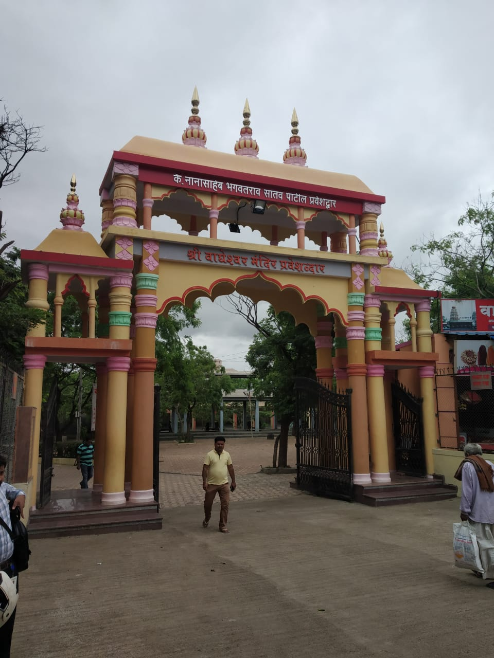 Wagheshwar Temple